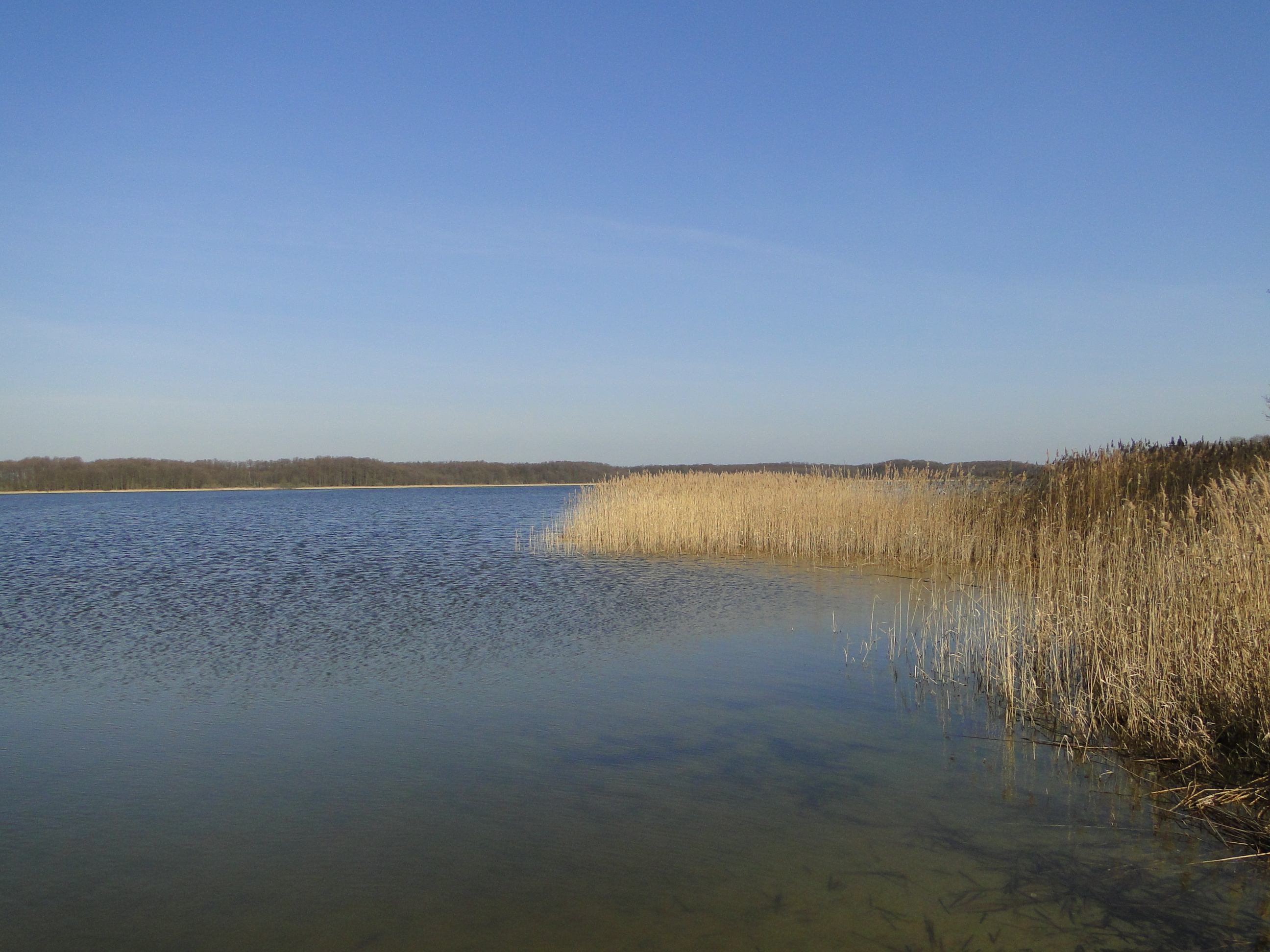 Lake Massower See in Kornhorst, disctrict Müritz, Mecklenburg-Vorpommern, Germany